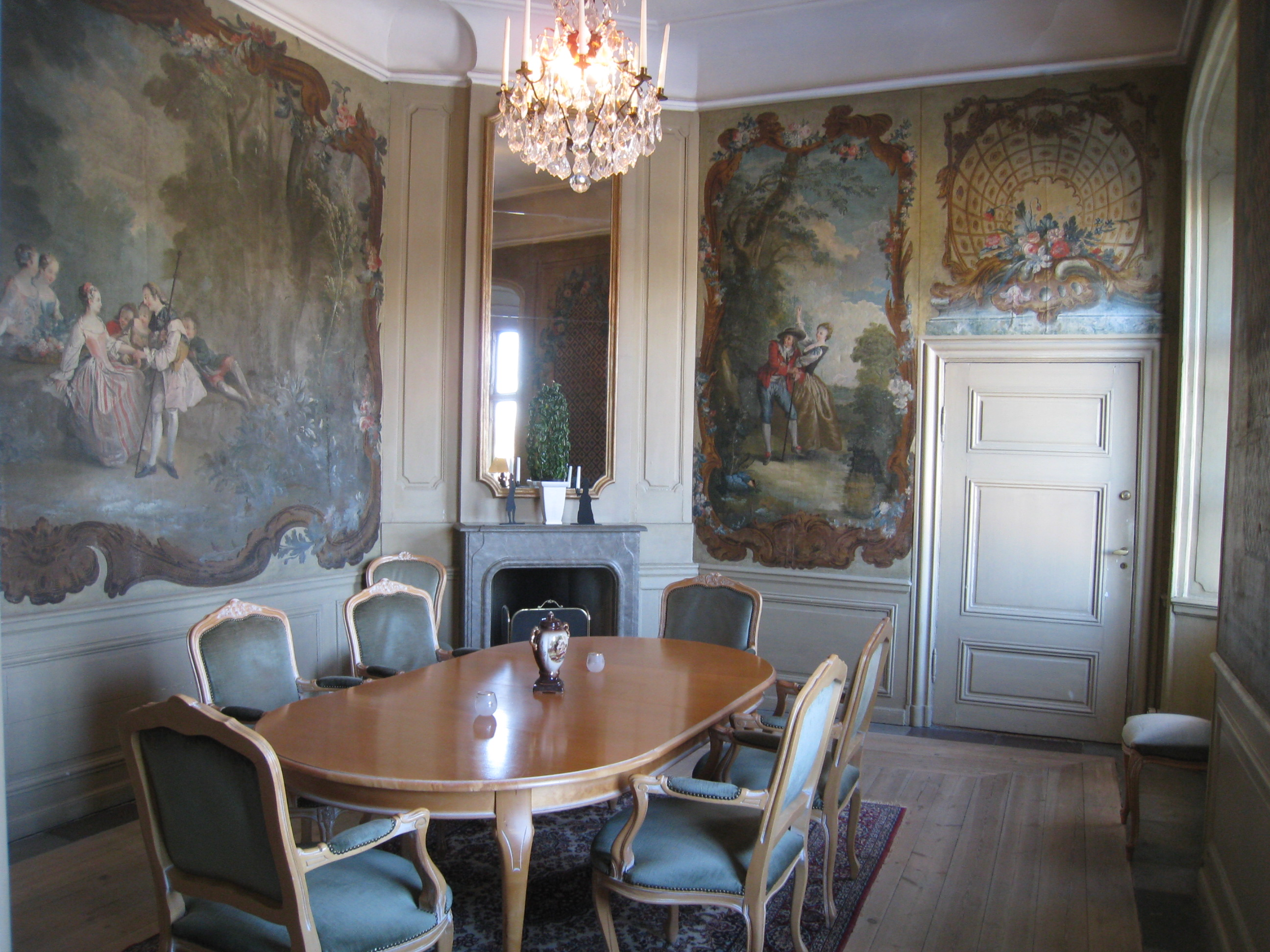 Agneta Wrede's drawing room, Åkeshovs slott, Bromma.